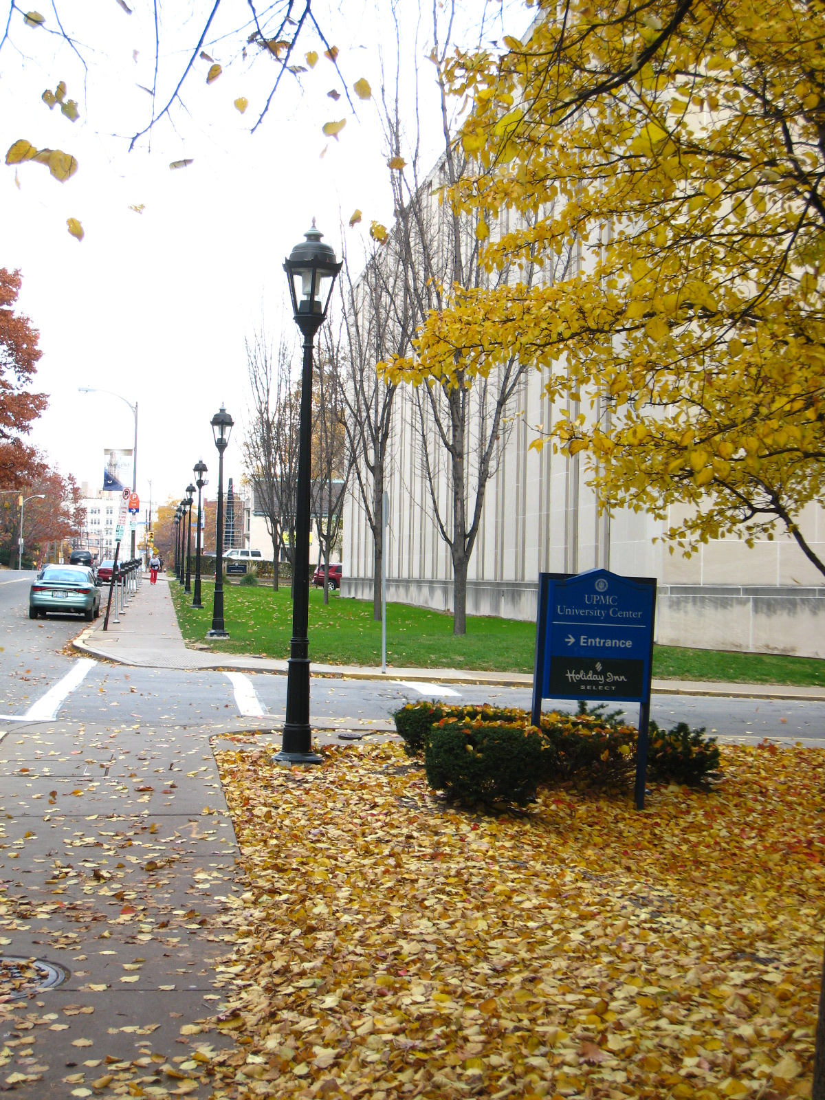 Bigelow Blvd in University of Pittsburgh